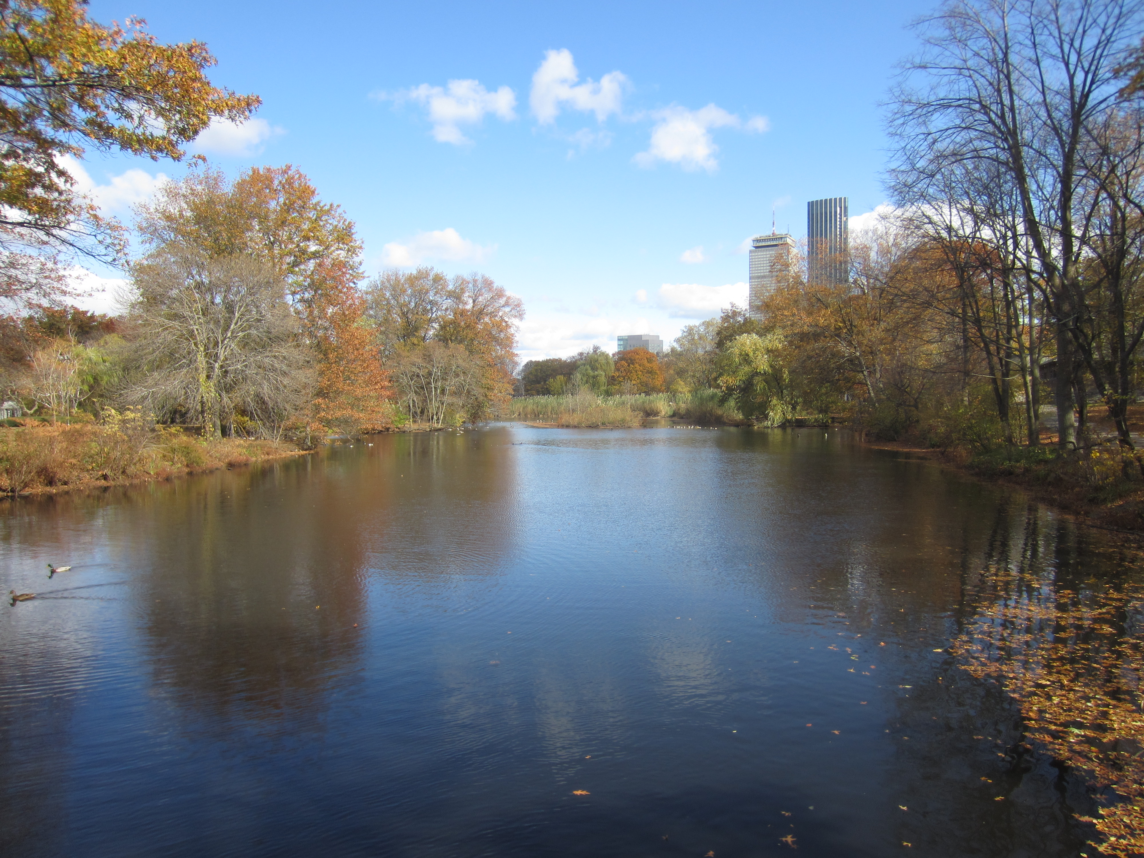 Back Bay Fens from the Forsyth Way footbridge in November 2019